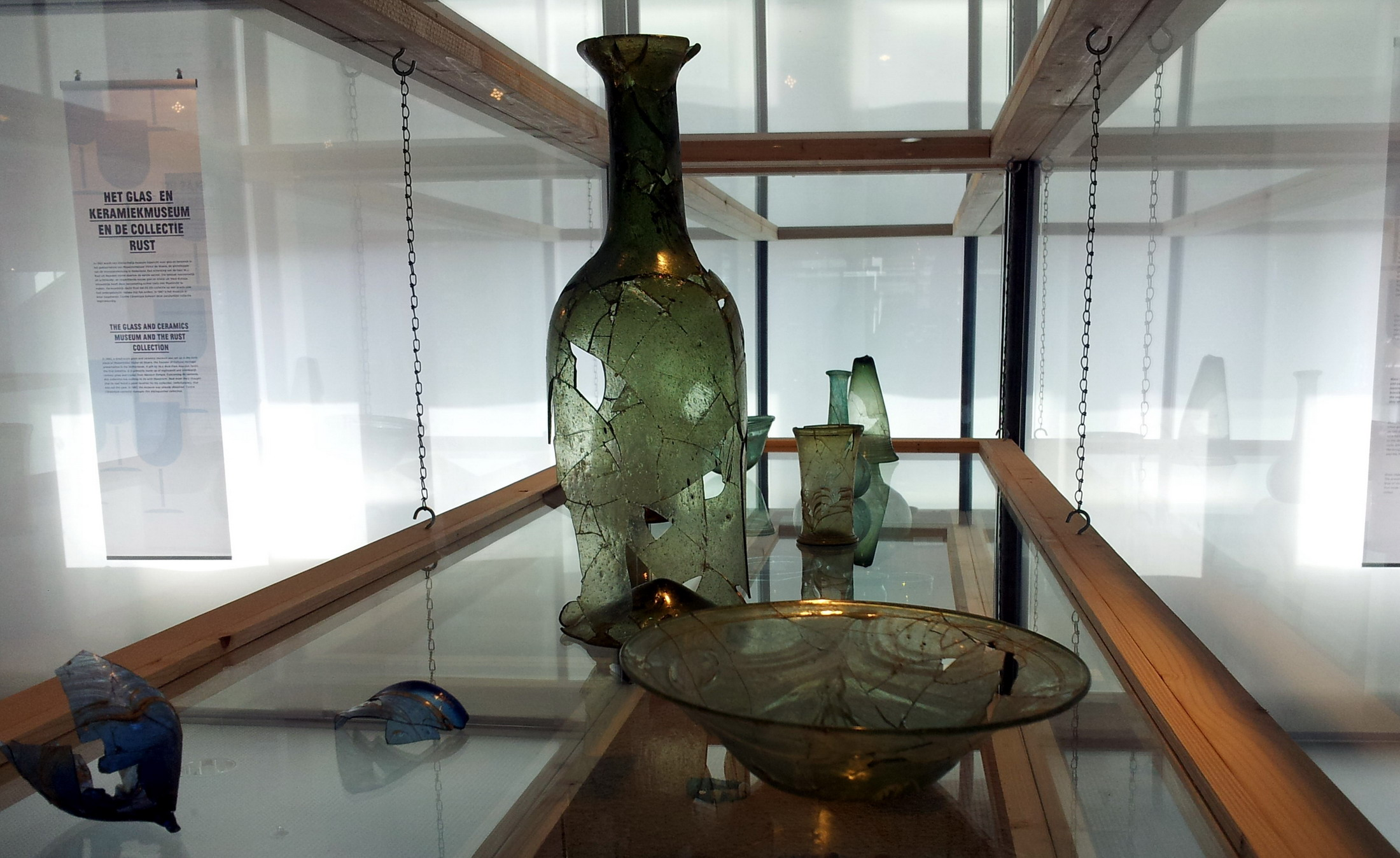 Merovingian glassware from a grave in Borgharen in the glass collection of Centre Céramique, Maastricht, the Netherlands.